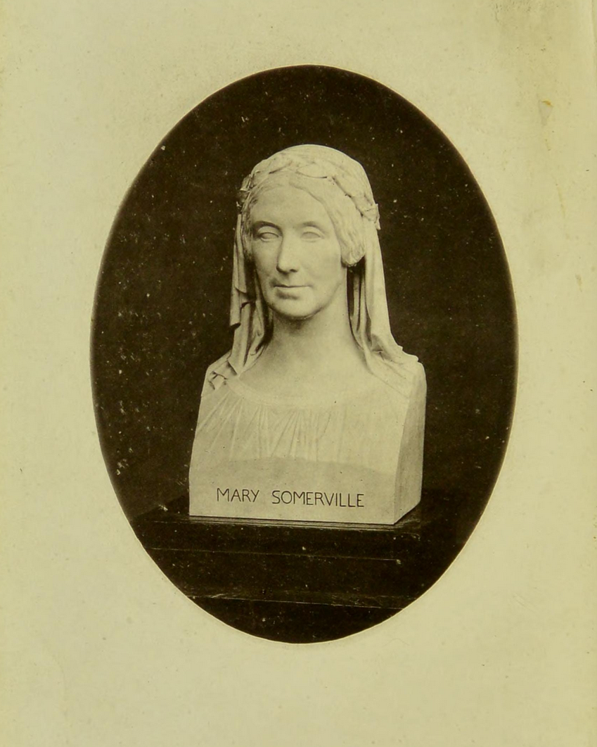 Plate from the book "Personal recollections, from early life to old age, of Mary Somerville" depicting a bust of Somerville